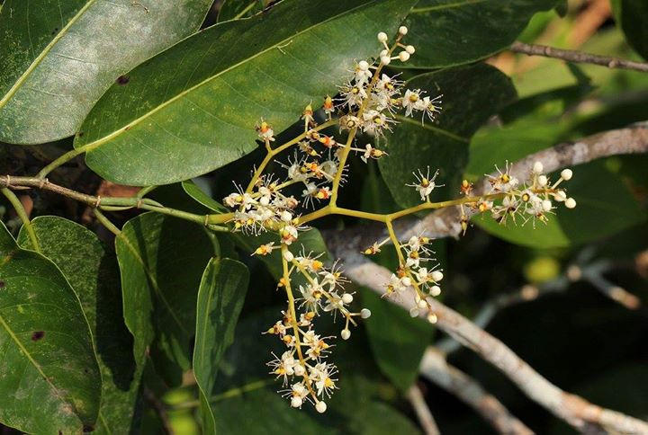 Irvingia smithii Hook.f. - riverine tree on the Aruwimi River in Central DR Congo